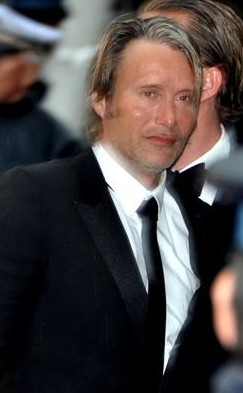 Mads Mikkelsen at the Cannes film festival